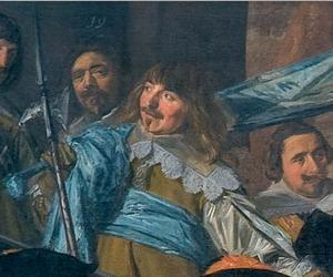 Jacob Druyvesteyn, detail of Officers and sub-alterns of the St George Civic Guard, Haarlem